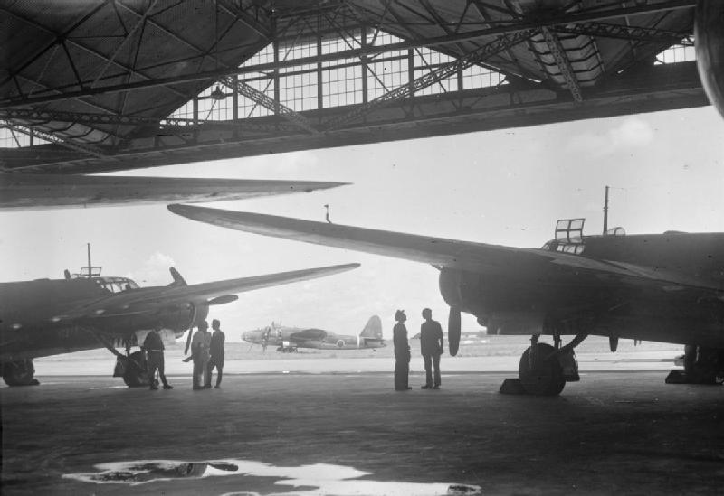 Two Nakajima Ki.49 Donryu 'Helen' aircraft in a hangar at Kalidjati airfield, Java. In the background is a Haysku Shuki bomber aircraft. Many enemy aircraft, flown by Japanese aircrew, were used by the Royal Air Force following the Japanese surrender.